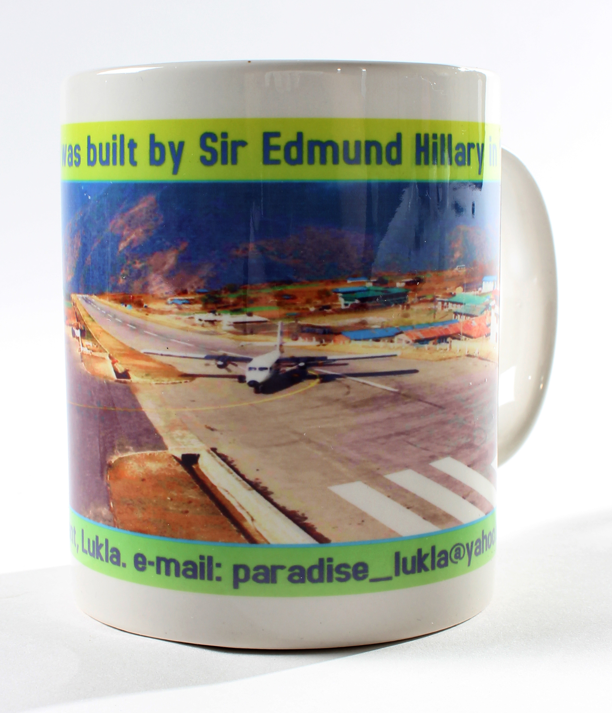 Souvenir mug Tenzing Hillary Airport Tenzing Hillary Airport was built by Sir Edmund Hillary in 1964 - renamed in January 2008 in honour of Sir Ed and Norgay Tenzing (previously known as Lukla Airport)